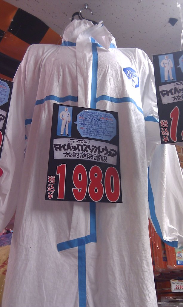 Taken with picplz at ドン・キホーテ 秋葉原店 in Chiyoda Ward, Japan .